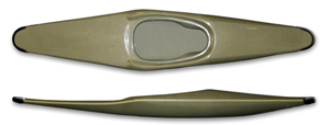 Canoe Polo Kayak view from Top